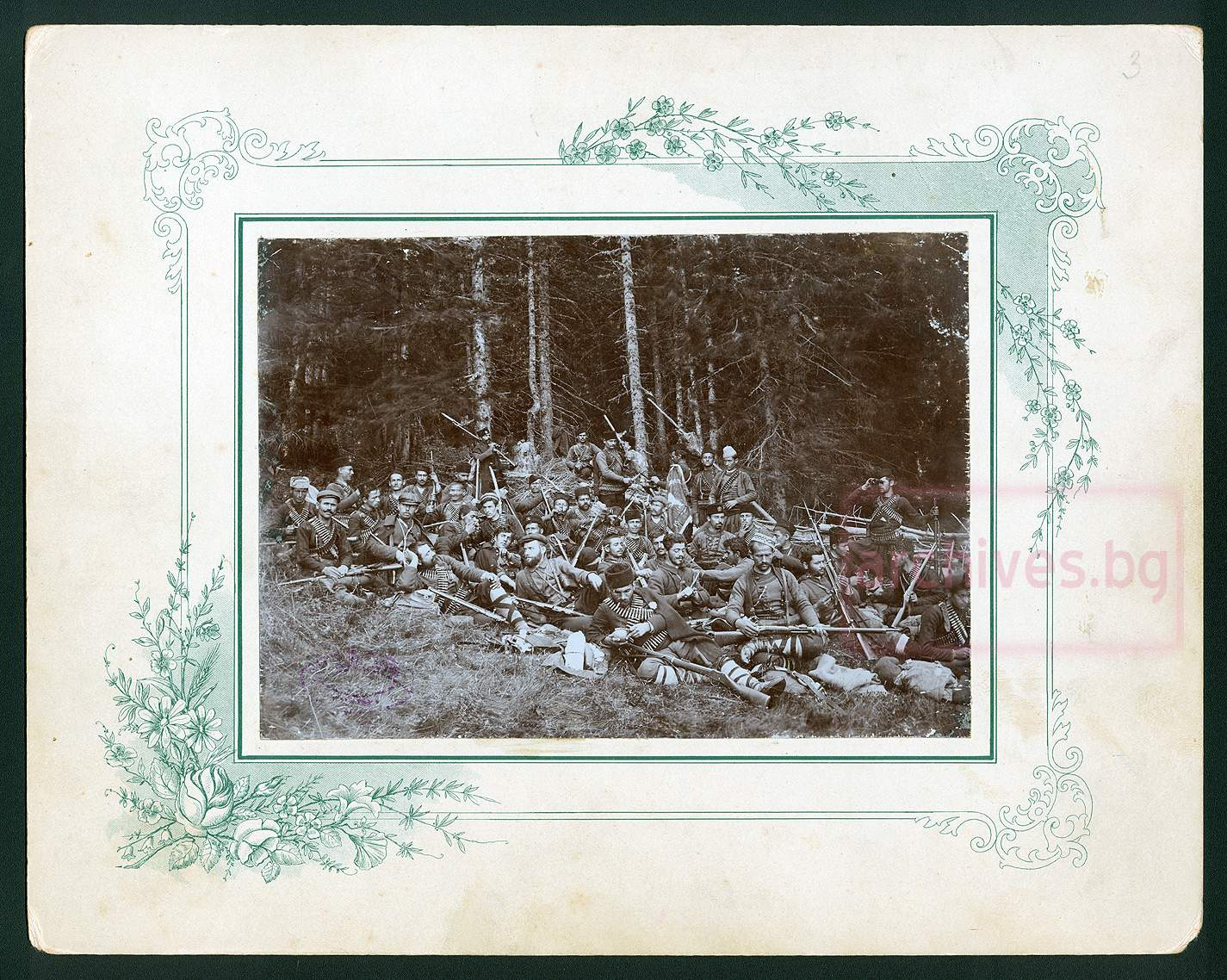 Peyu Shishmanov's band.